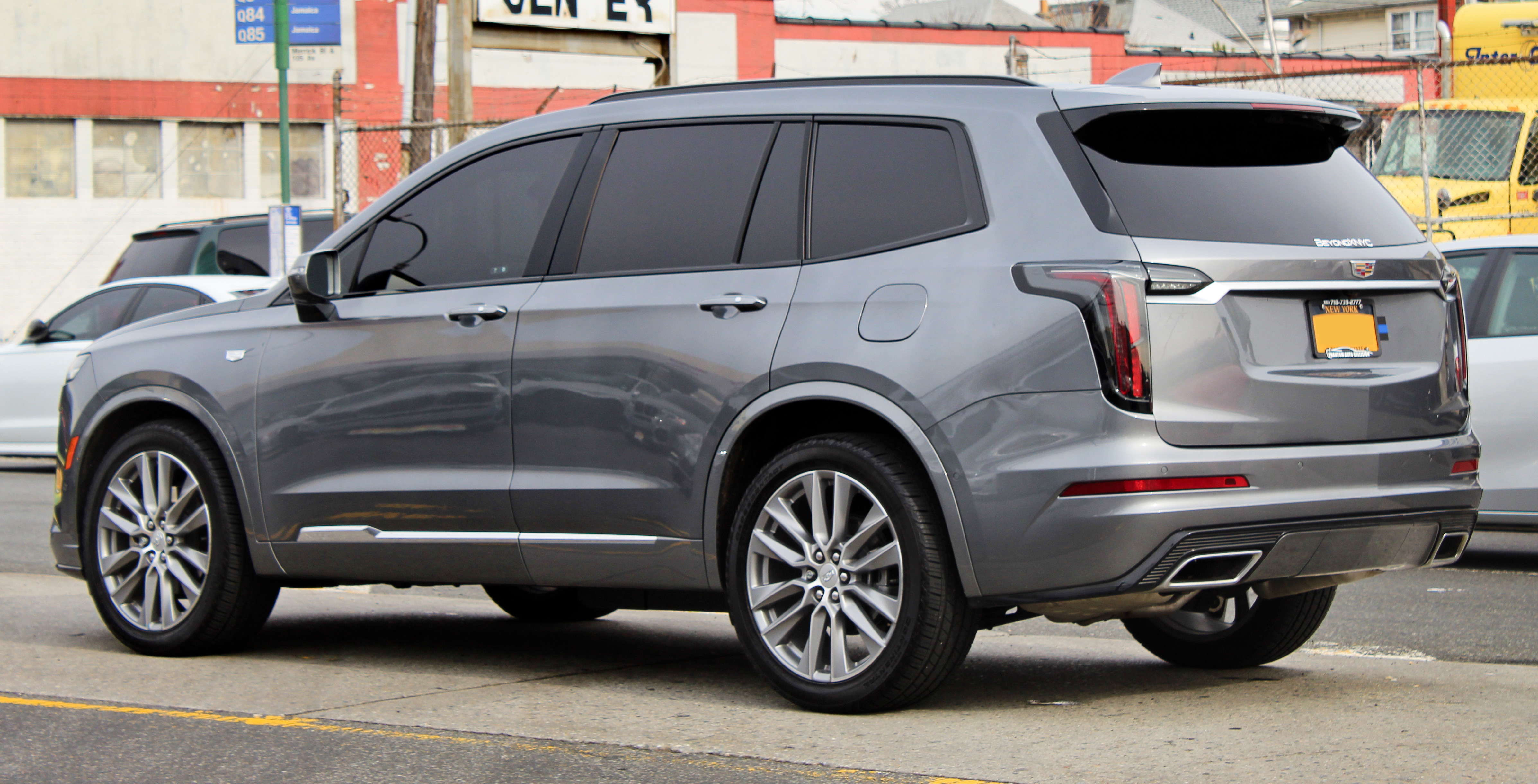 A 2020 Cadillac XT6 Sport AWD photographed in Jamaica, Queens, New York, USA